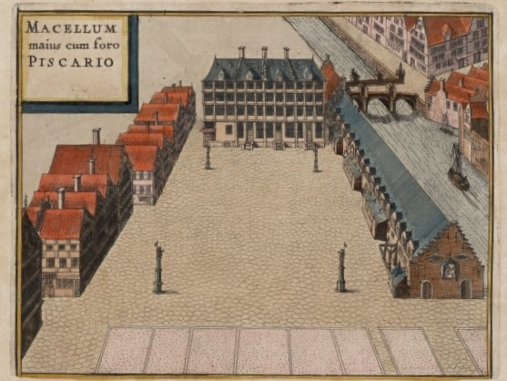 De groentenmarkt in 1641, toen het nog de vismarkt was - Afbeelding uit Flandria Illustrata